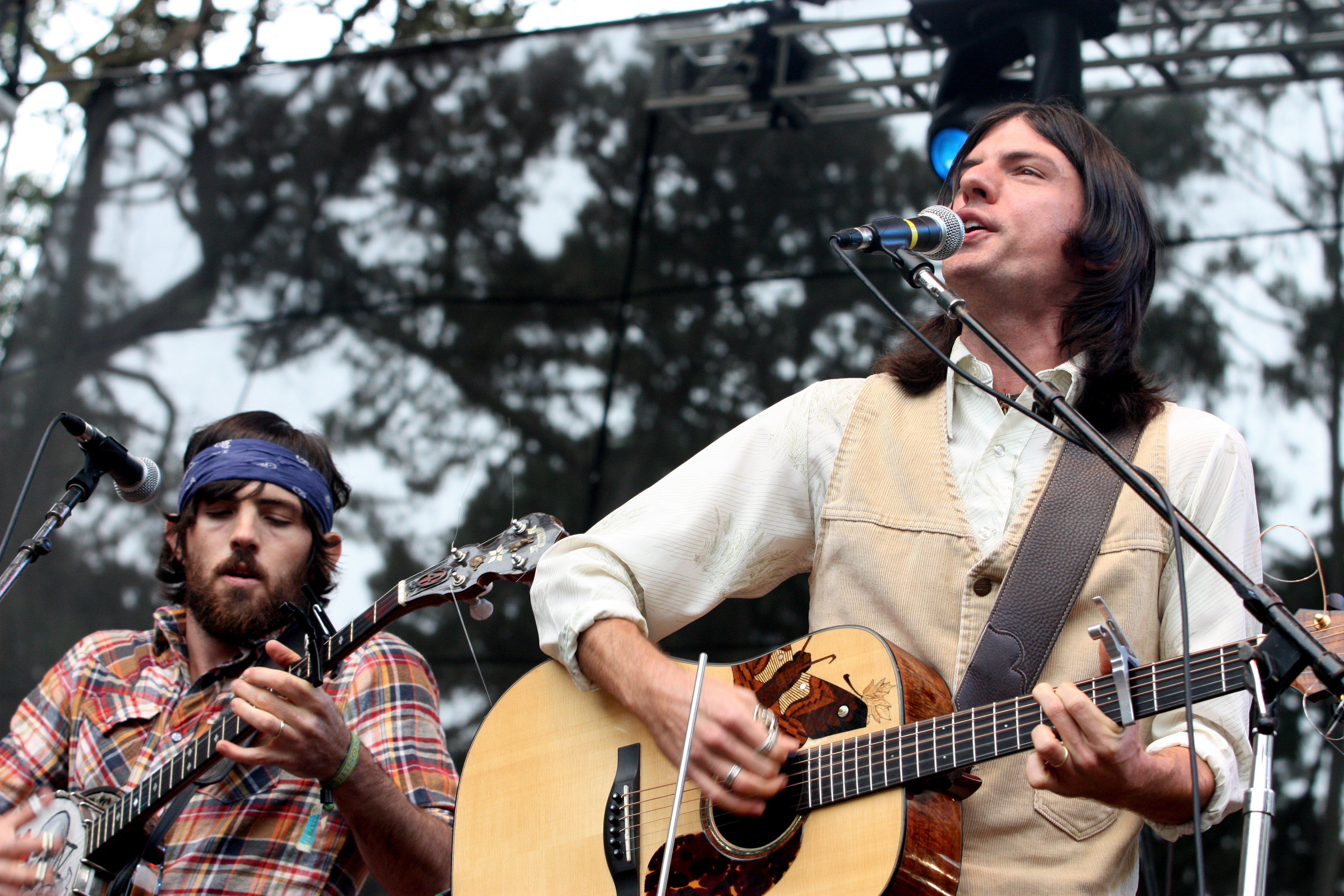 Scott Avett and Seth Avett from The Avett Brothers at the Outside Lands 2009